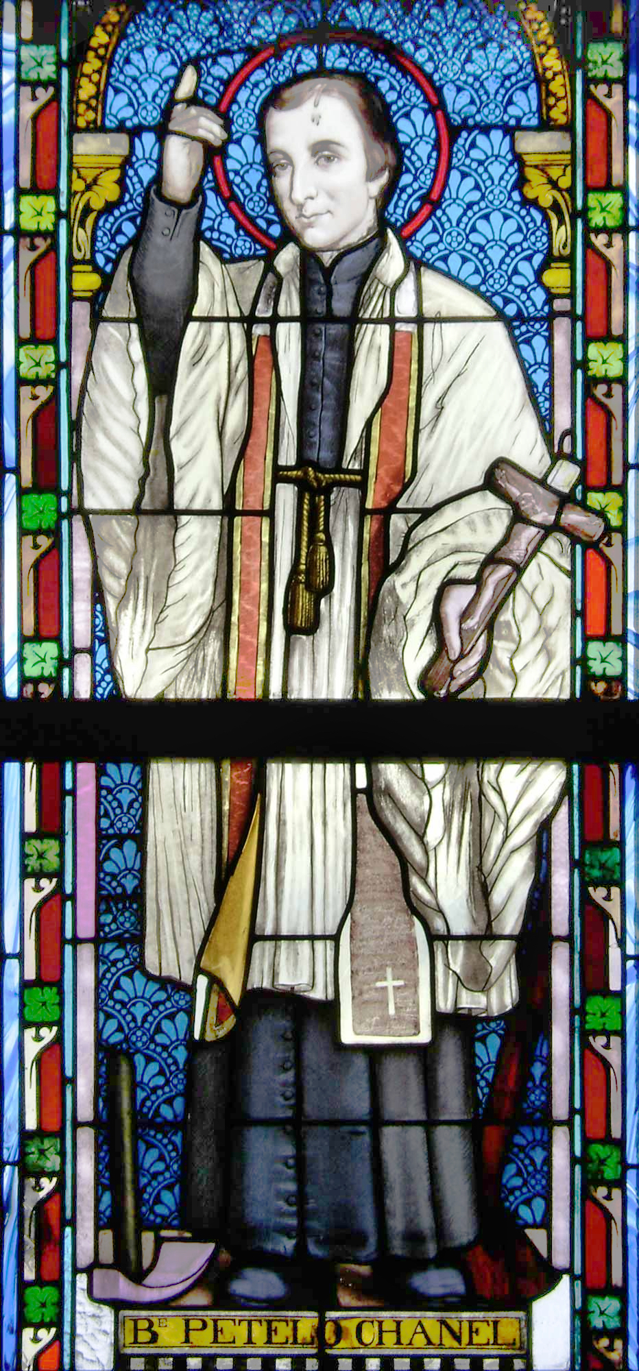 Pierre Chanel (Petelō Saineha), depicted on a glass-in-lead window of the catholic church of Lapaha, Tonga